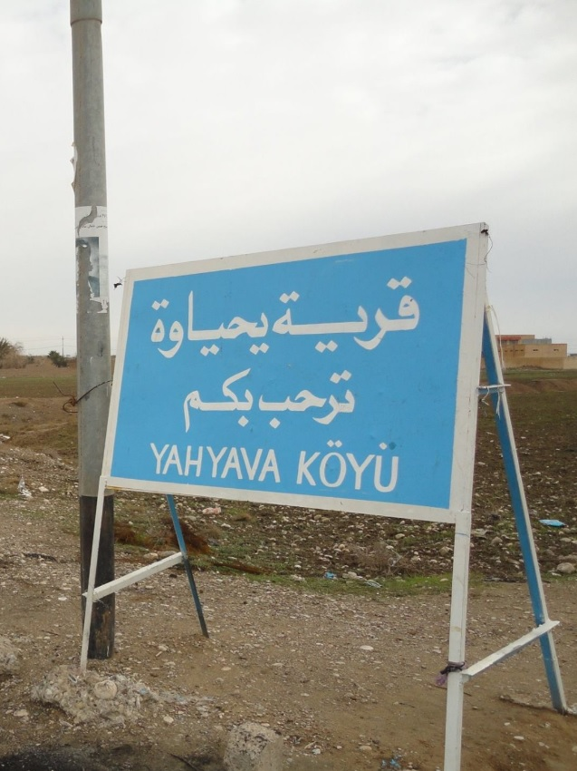 Village of Yahyava, Iraq